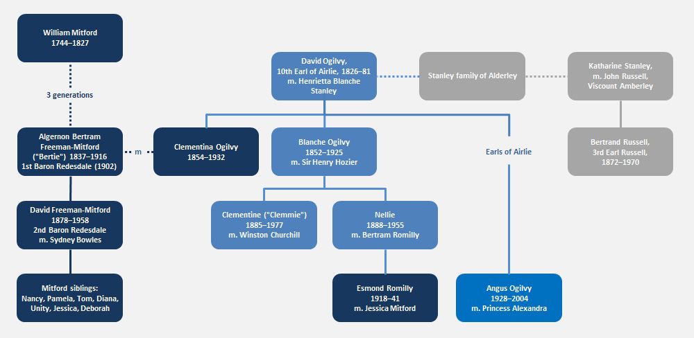 Mitford selective family tree